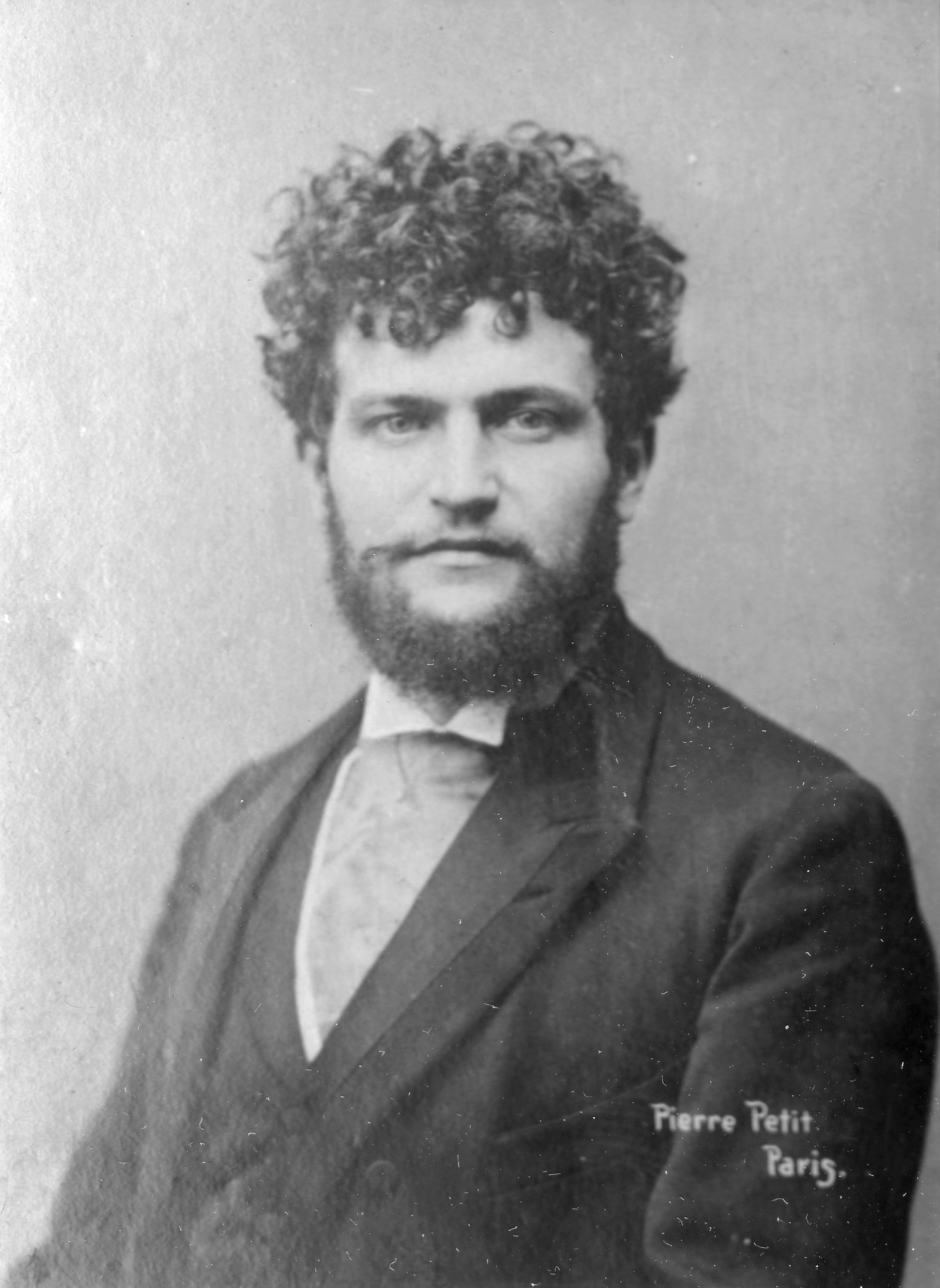 Laurent Labaigt, called Jean Rameau, French novelist and poet